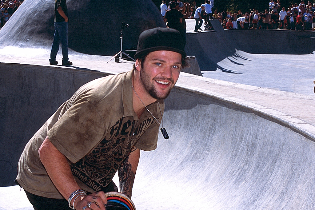 Bam Margera, professional skateboarder and television personality